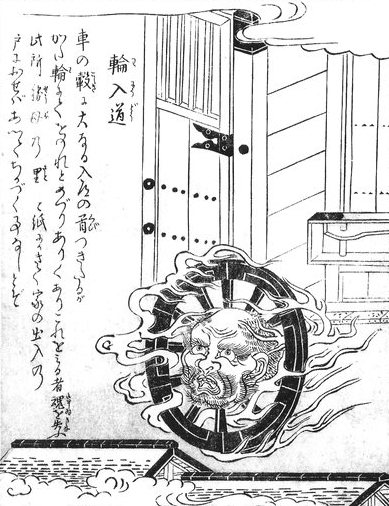 Wanyūdō (輪入道, a flaming wheel with a man's head in the center) from the Konjaku Gazu Zoku Hyakki (今昔画図続百鬼)